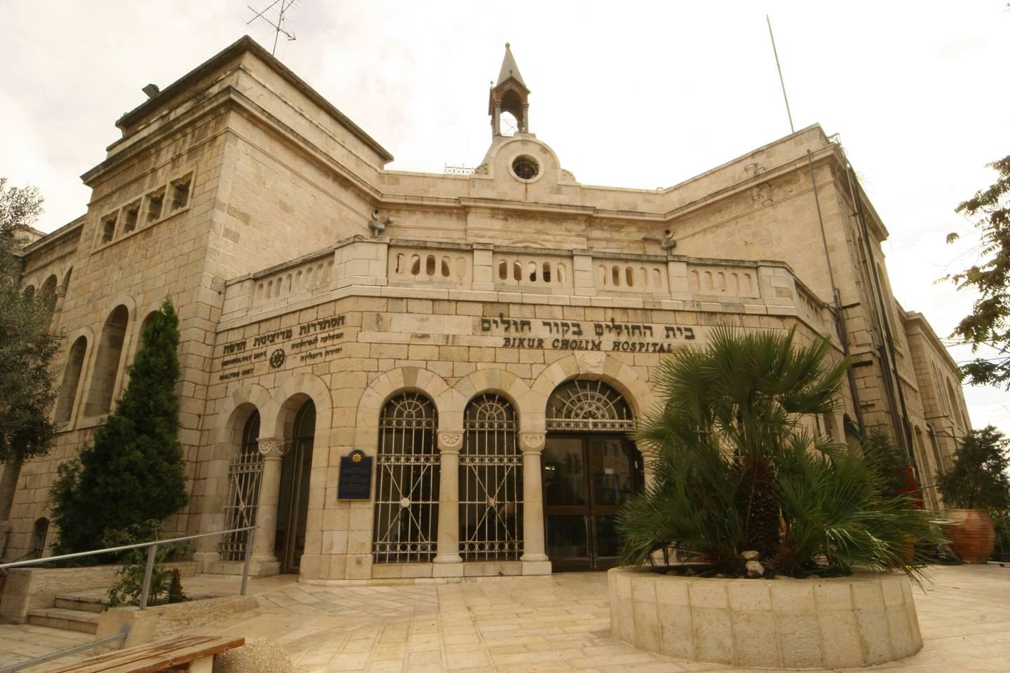 Bikur Cholim Hospital Jerusalem